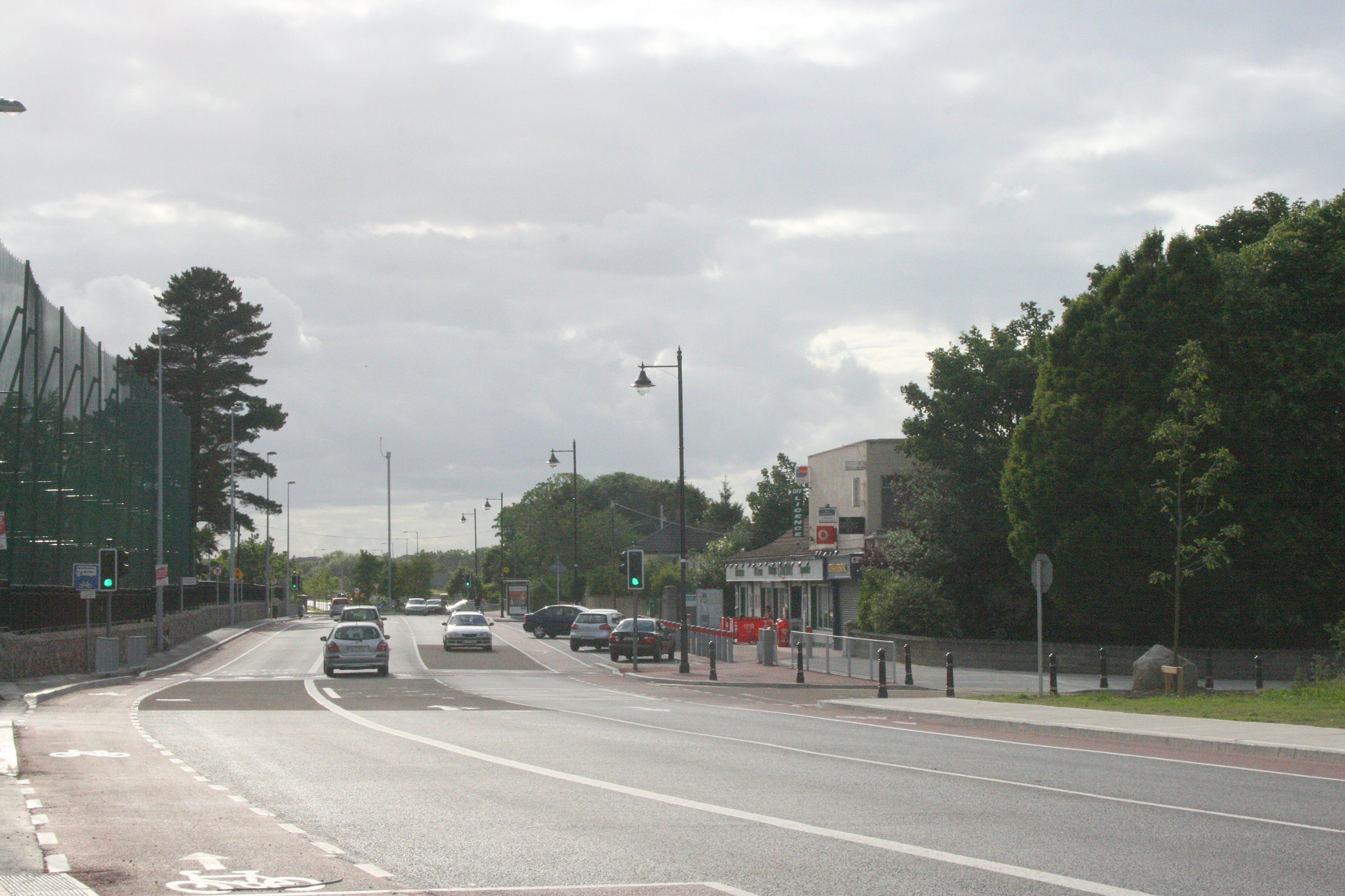 Taylor's Lane (R113), Ballyboden, Dublin.